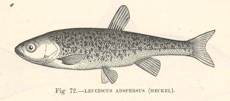 Leuciscus adspersus (Heckel) Subject: Cyprinidae, Leuciscus Tag: Fish